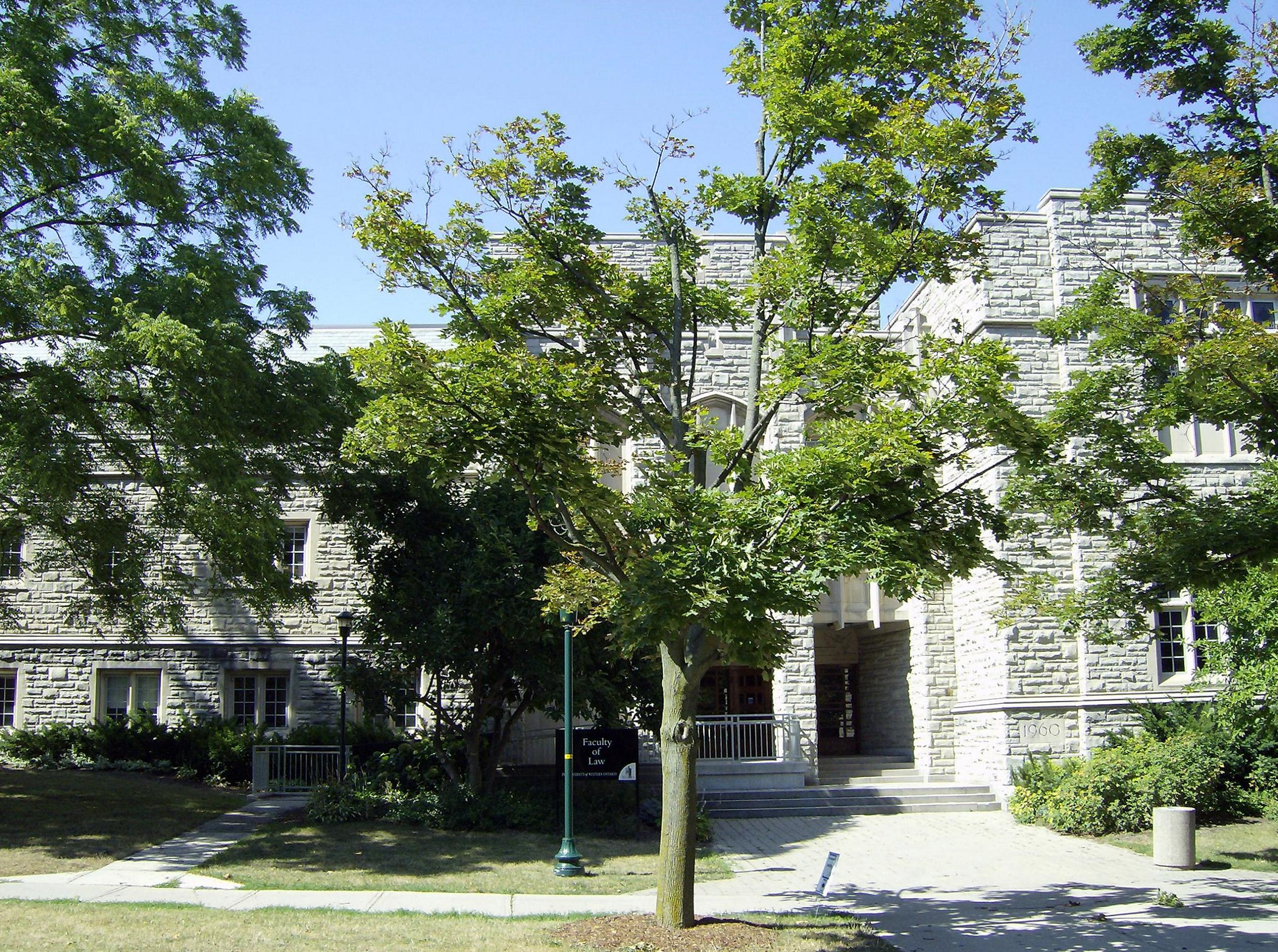 Josephine Spencer Nibleet law faculty, Western